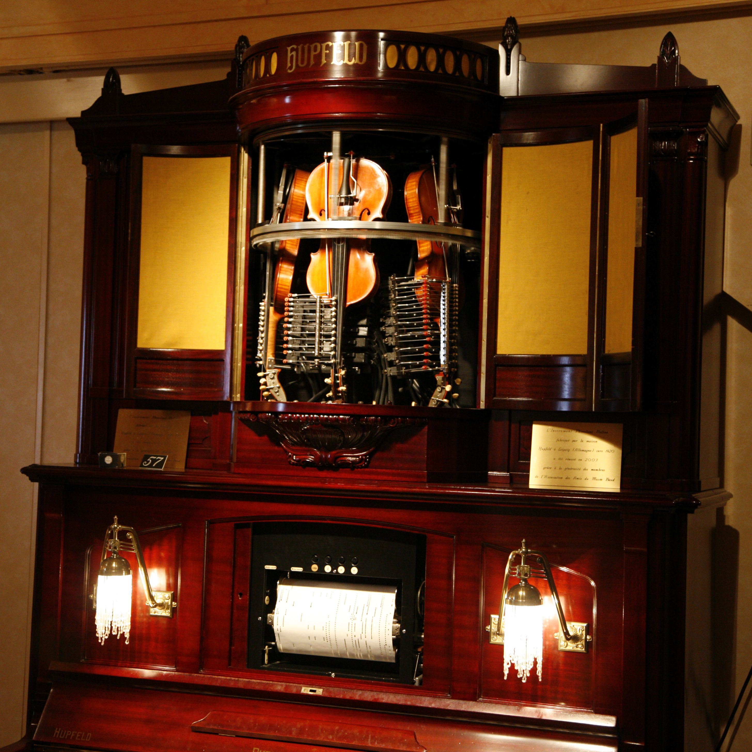 Musée Baud